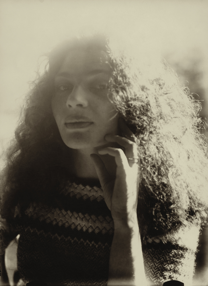 Jadwiga Witkiewiczowa, a photo of Stanisław Ignacy Witkiewicz, 1923.